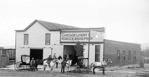 Cascade Livery, Feed, Stable and Robuck Bros. Prop. building (Montrose, Colo.) Photographer unknown, circa 1900? URL